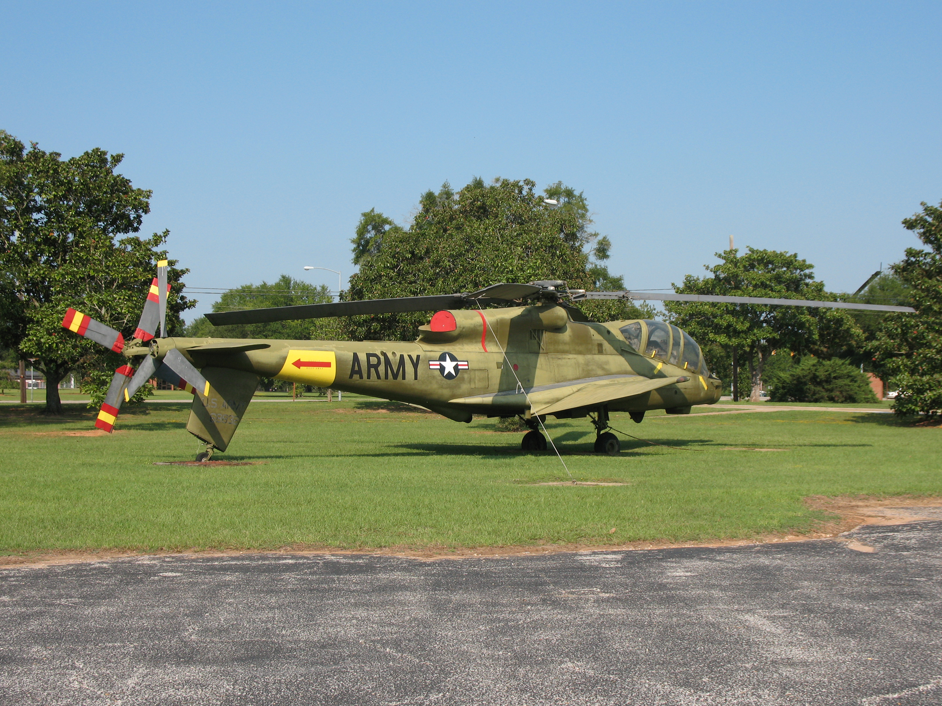 Design of the AH-56 "Cheyenne" began during the Vietnam War to replace the AH-1 Cobra, which was vulnerable to light antiaircraft fire and lacked agility. Because of cost overruns, delays, and changing Army requirements, the AH-56 never went into production. The AH-64 "Apache" eventually was chosen to fill the role for which the "Cheyenne" was developed. This is one of the ten prototypes built after Lockheed won the design for the Army's Advance Aerial Fire Support System (AAFSS).